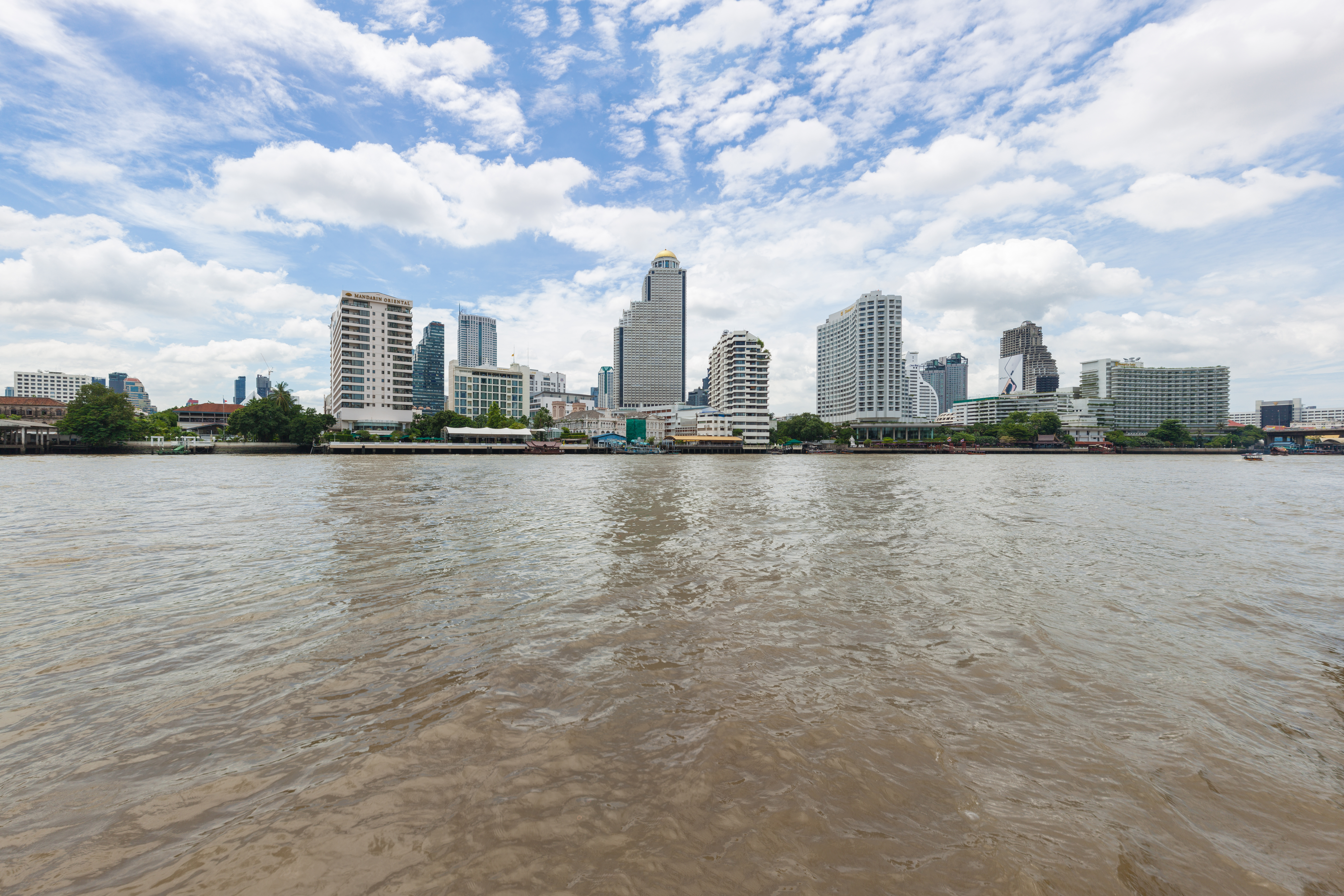 The view of Skyscrapers in Bang Rak District along Chao Praya River.